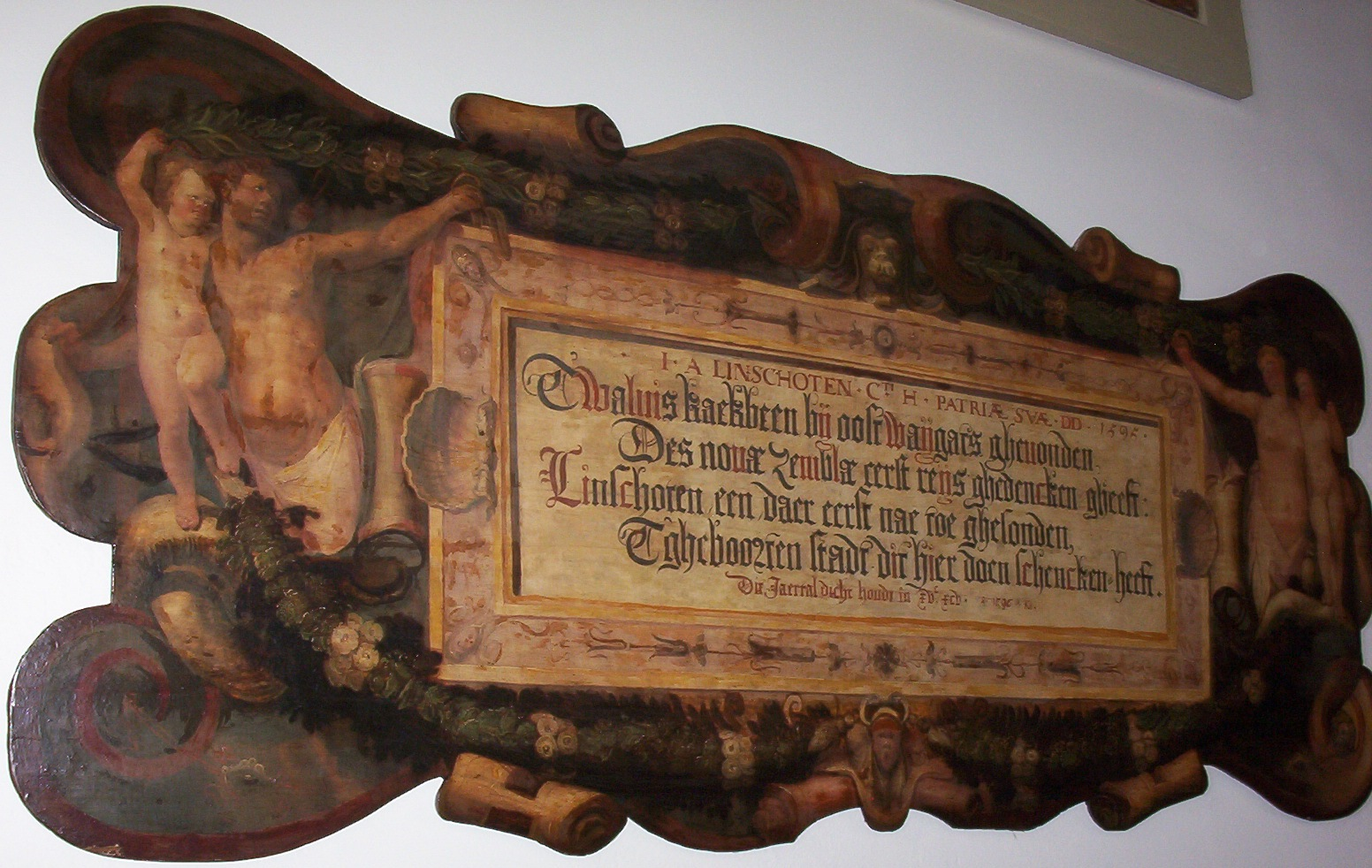 Photo of memorial plaque to Jan Huygen van Linschoten in 1594 by the city art restorer and historian Karel van Mander. Oil on wood. Text on the plaque: I A Linschoten C ti H Patria Sua DD 1595 T'Walvis Kaeckbeen bij oost Waijgats ghevonden, Des novae zemblae eerst eens ghedencken gheeft: Linschoten een daer eerst nae toe ghesonden, T'gheboorten Stadt dit hier doen Schencken heeft. Dit Jaertal dicht houdt in xvc xcv 1595